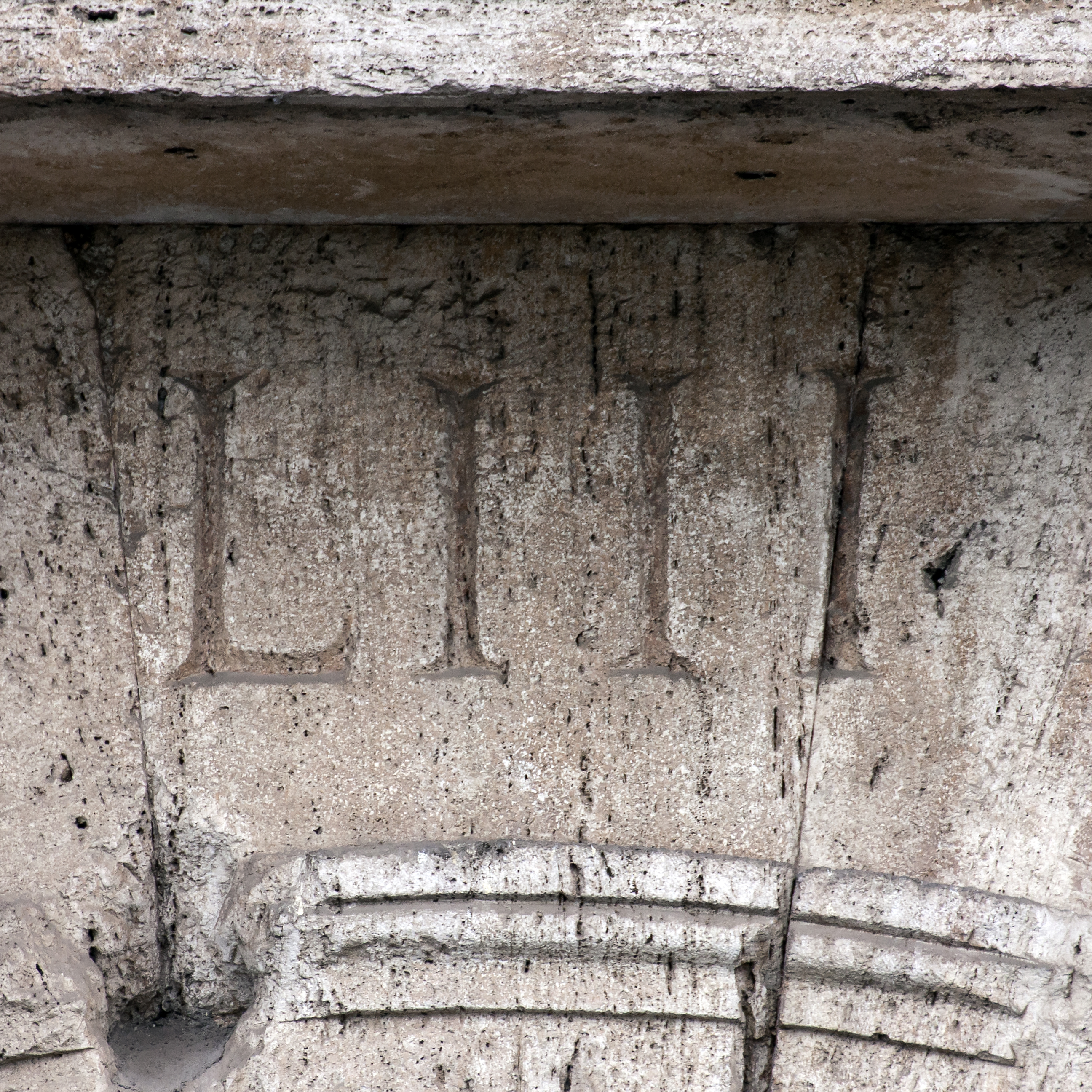 Number above entrance 53 to the Colosseum.